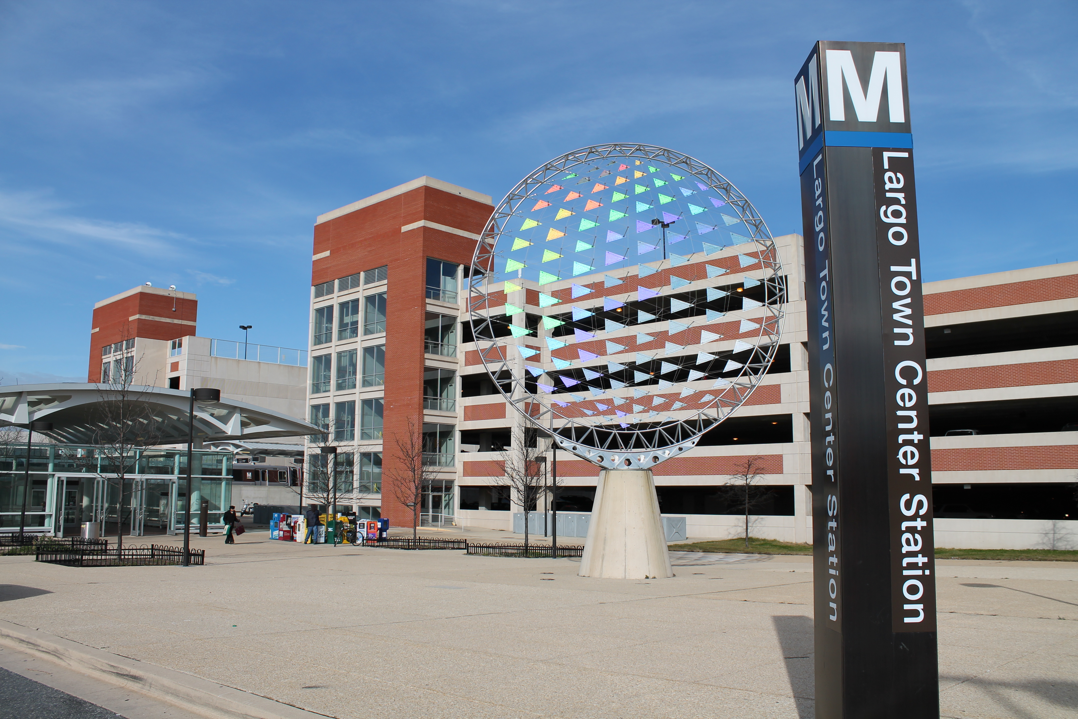 "Largo Beacon" Sculpture by Ray King at the WMATA Largo Town Center Station at 9000 Lottsford Road in Largo, MD on Friday afternoon, 30 December 2011 by Elvert Barnes Photography